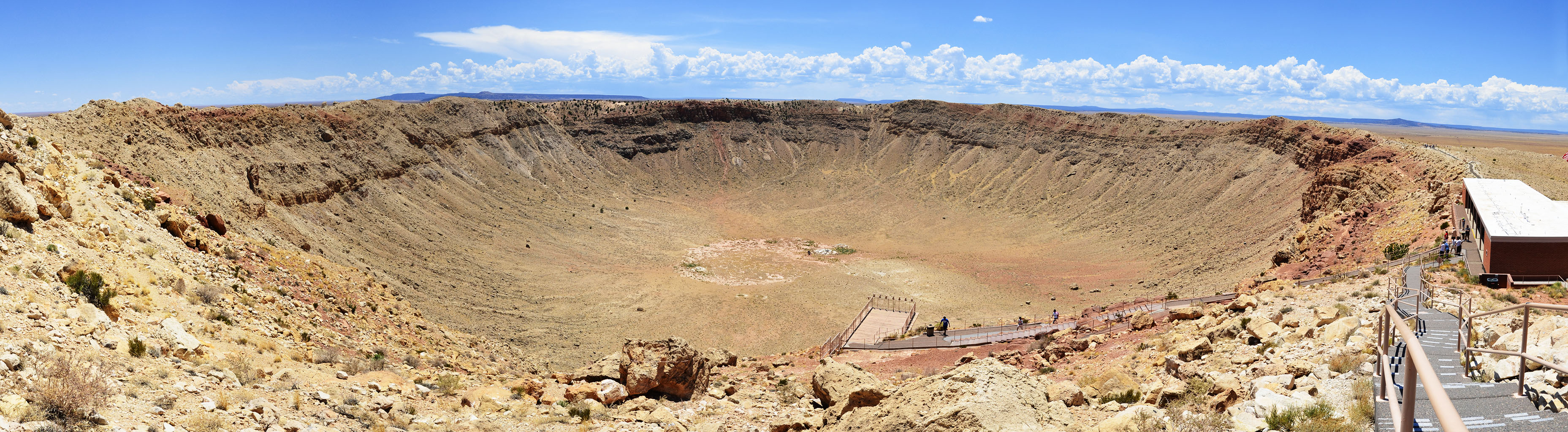 This is a stitched panoramic image of Meteor Crater located near Winslow, Arizona, 2012 07 11